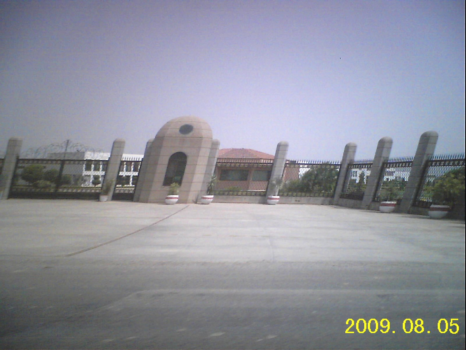 Dewan Textile Mills